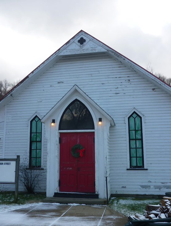 This building used to be the Methodist Church in Renfrew, PA. The door was painted red when the church mortgage was paid off. It has since been sold to a private person.